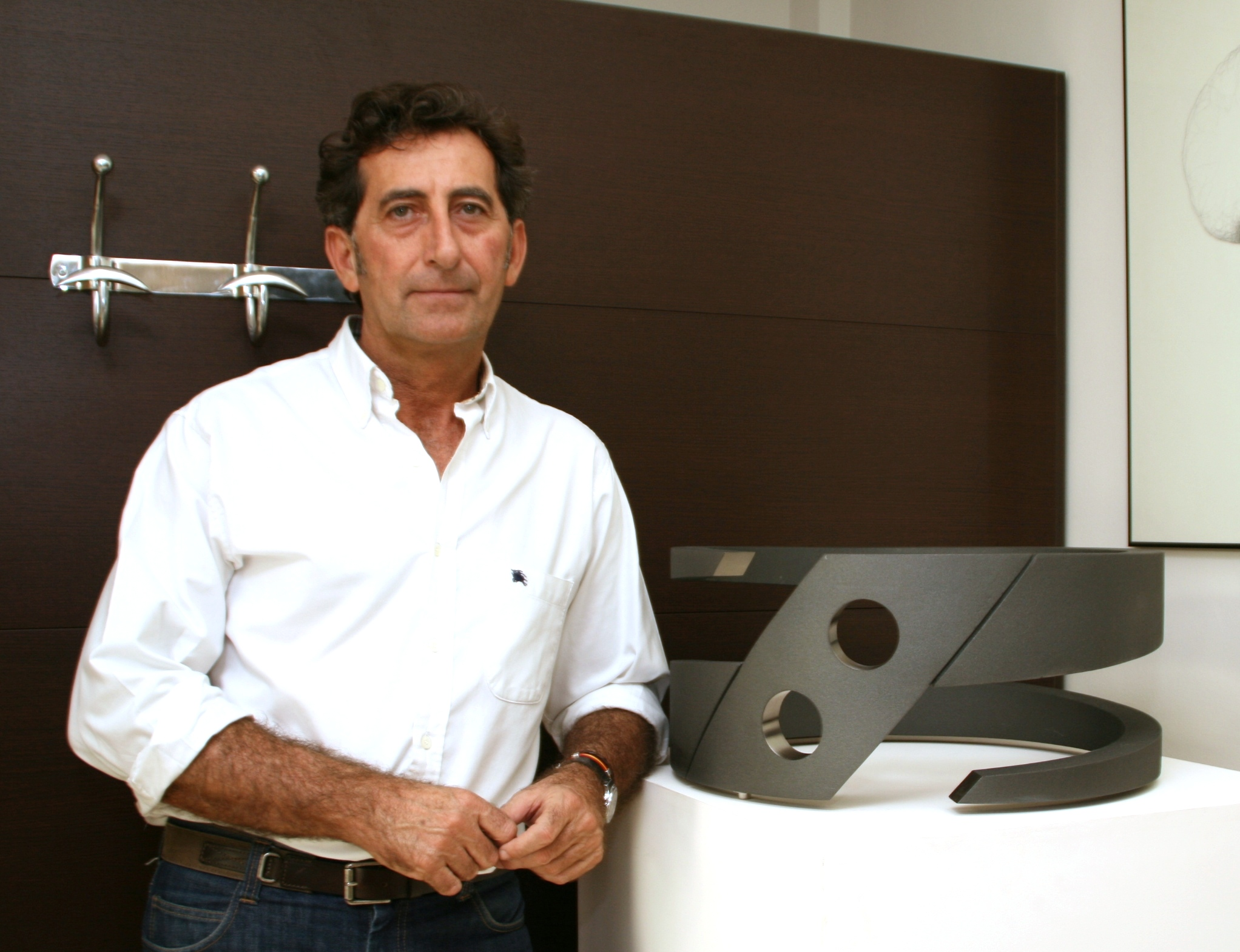 Spanish sculptor Chico Repullo (Málaga, 1956) with Technomusa, one of the sculptures of Sinergia Tubular (2009)